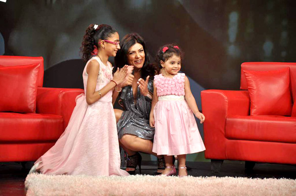 Sushmita Sen at Raveena's chat show for NDTV